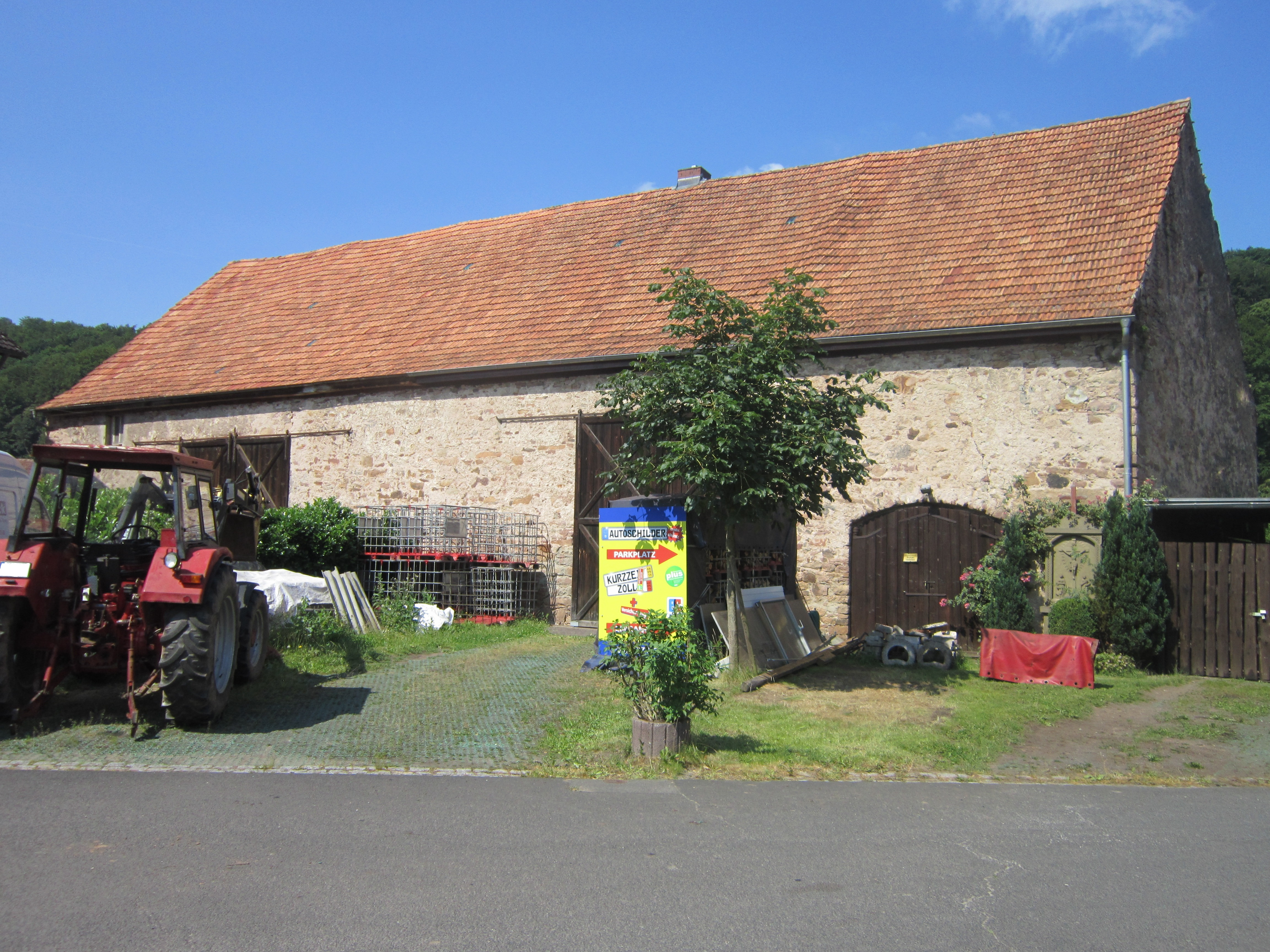 Former monastery barn in Hausen, a quarter of the German spa town of Bad Kissingen in Lower Franconia (Bavaria), Address: Klosterweg 7a.